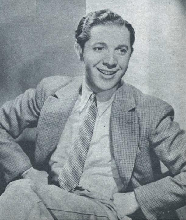 Igor Gorin, romantic young Viennese baritone star of 'Hollywood Hotel' - Radio Guide July 1937